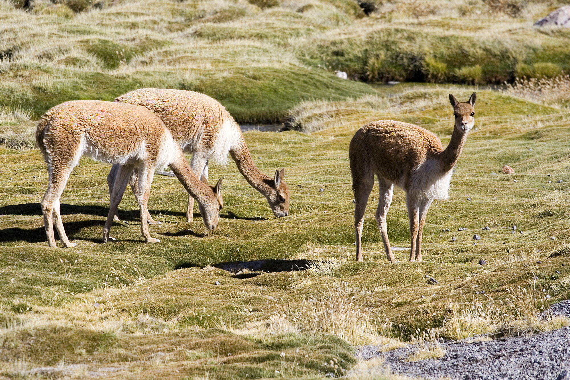 Vicuña (Vicugna vicugna) near lake Chungarà, northern Chile, 4570 meters.